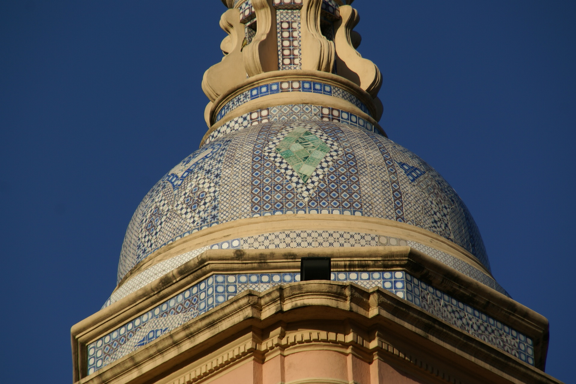 Basílica de Santo Domingo in Córdoba, Provincia de Córdoba, Argentina